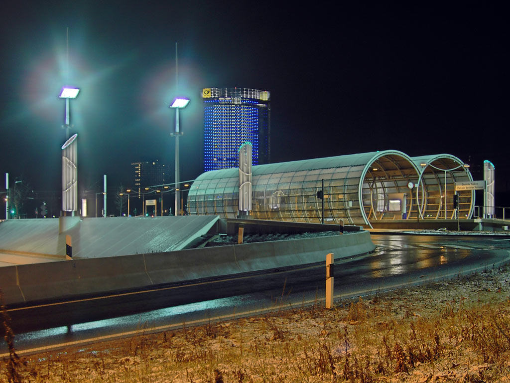 Junction between Federal motorway 562 and Federal road 9 with Post Tower in Bonn.